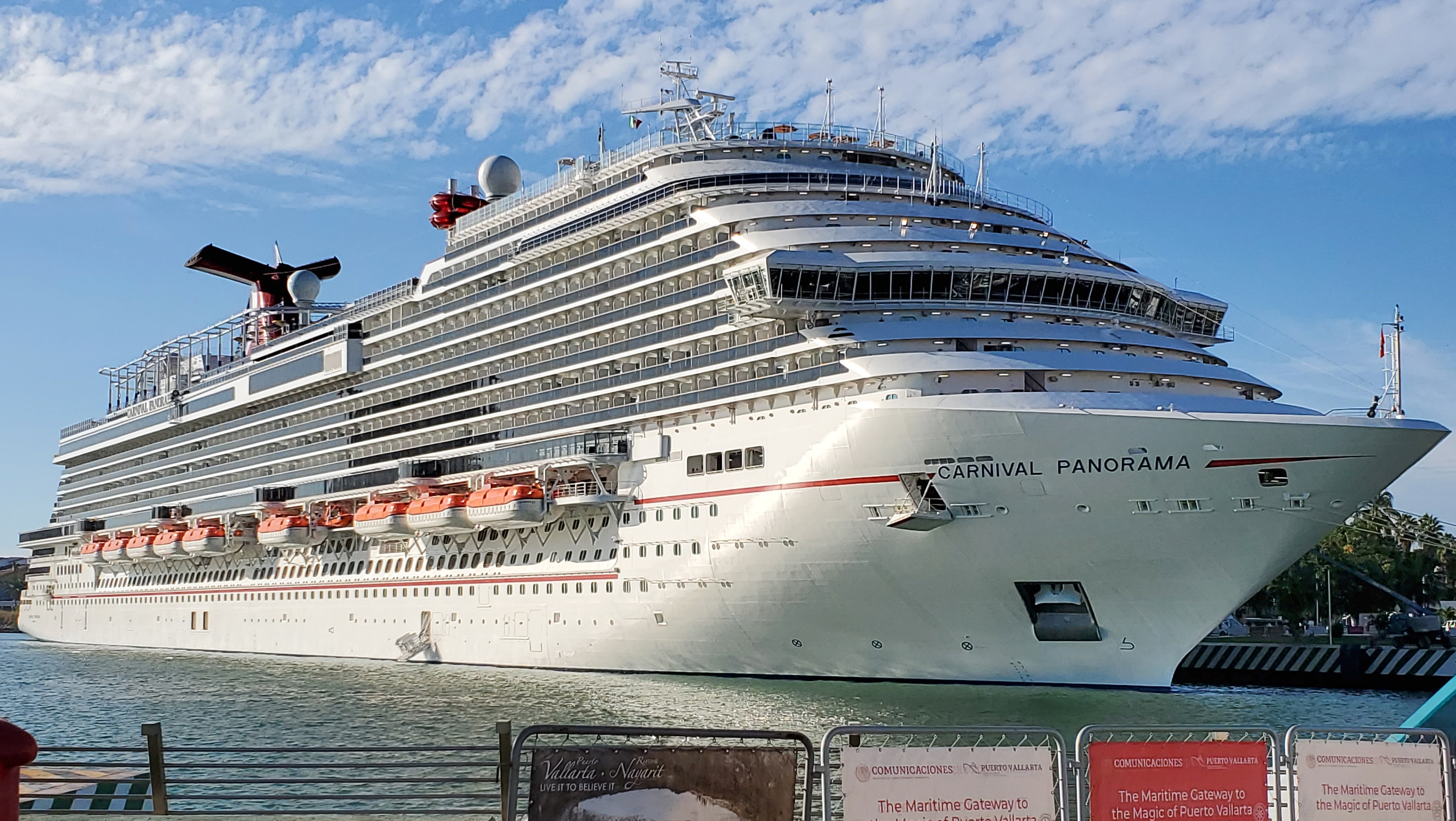 Carnival Cruise Line's third Vista-class cruise ship, Carnival Panorama, docked at Puerto Vallarta Cruise Port's Berth 3 in Puerto Vallarta, Mexico on 8 January 2020.